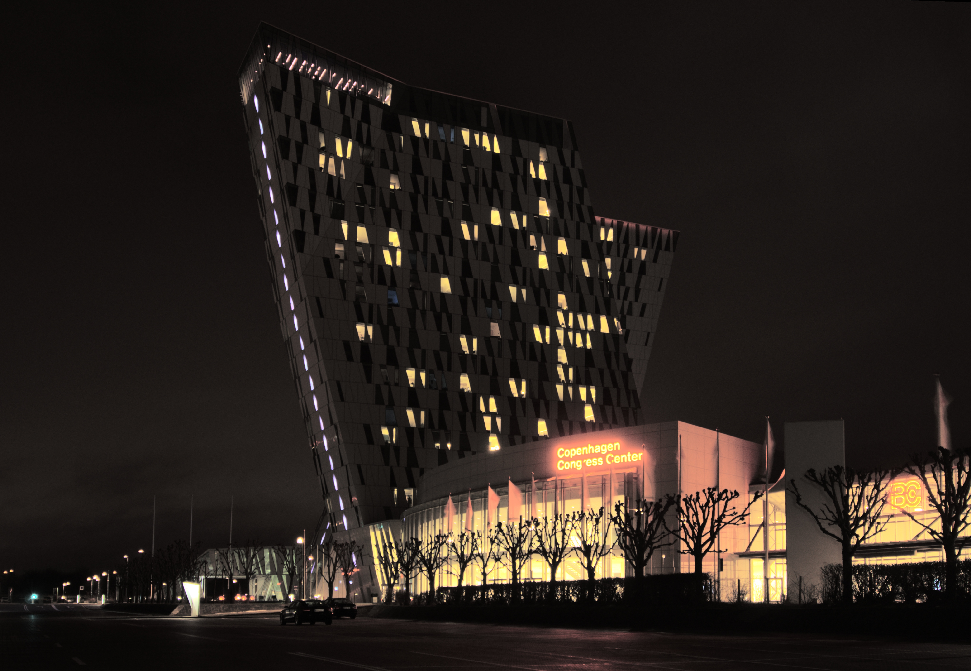 The Bella Center in Copenhagen at night